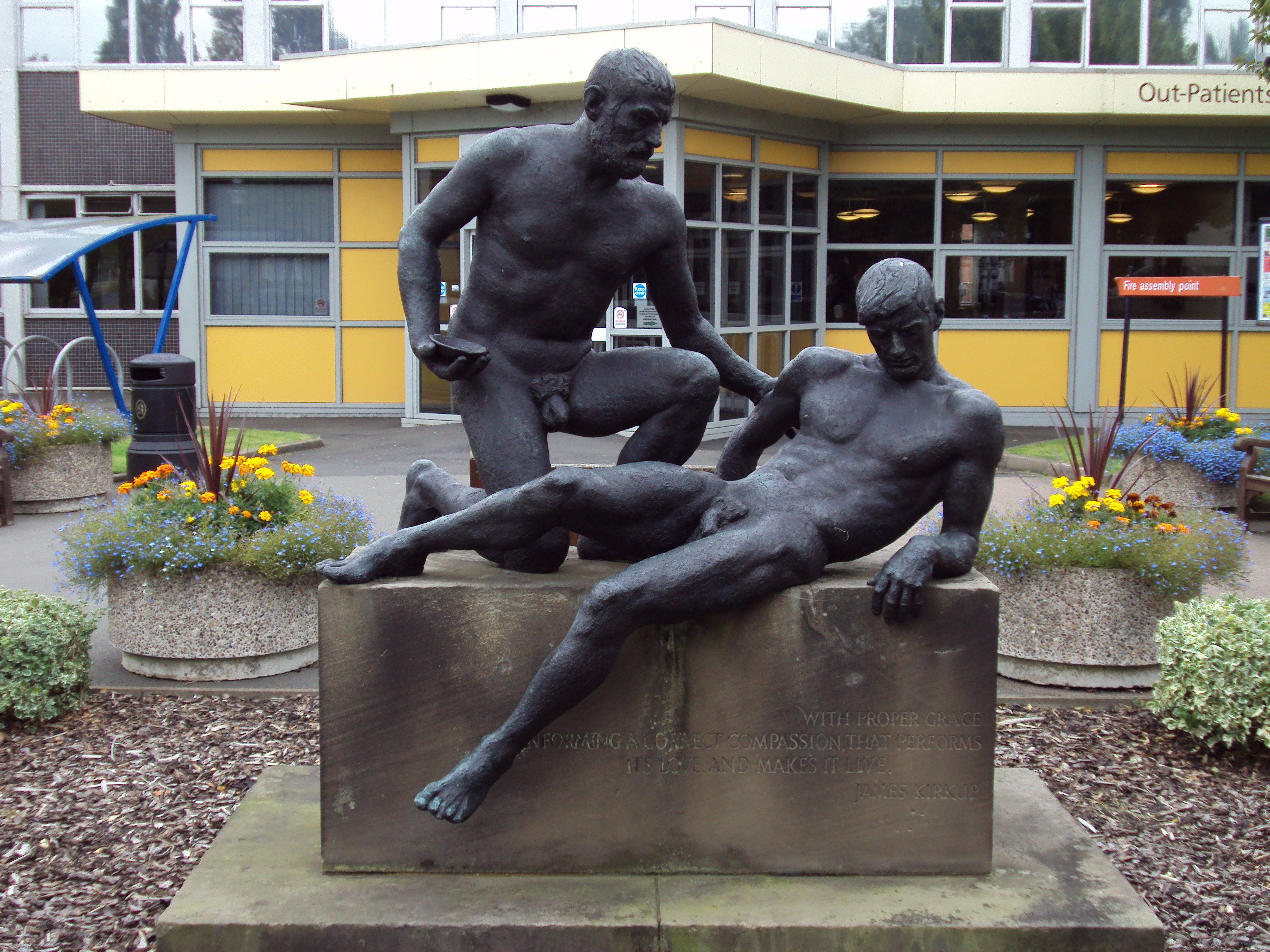 The Good Samaritan (1961), by the sculptor Uli Nimptsch — located in the garden outside the Out-patients Unit at Selly Oak Hospital, in Selly Oak, Birmingham, England. The base of the statue is inscribed with lines from A Correct Compassion, a poem by James Falconer Kirkup (1918–2009) about a heart operation, first published in The Listener in 1951 and dedicated to “to Mr Philip Allison, after watching him perform a Mitral Stenosis Valvulotomy in the General Hospital at Leeds”. The statue was commissioned and presented to Selly Oak Hospital by the Charles Henry Foyle Trust on the suggestion of one of the original trustees, the late Sir Albert Bradbeer (1890–1963).